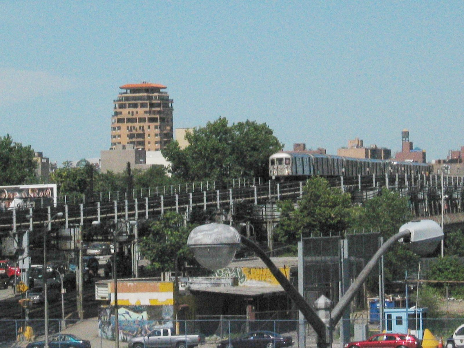 Flushing line train is entering While Point-Shea Statium station, from the east. Flushing section of New York is on a background